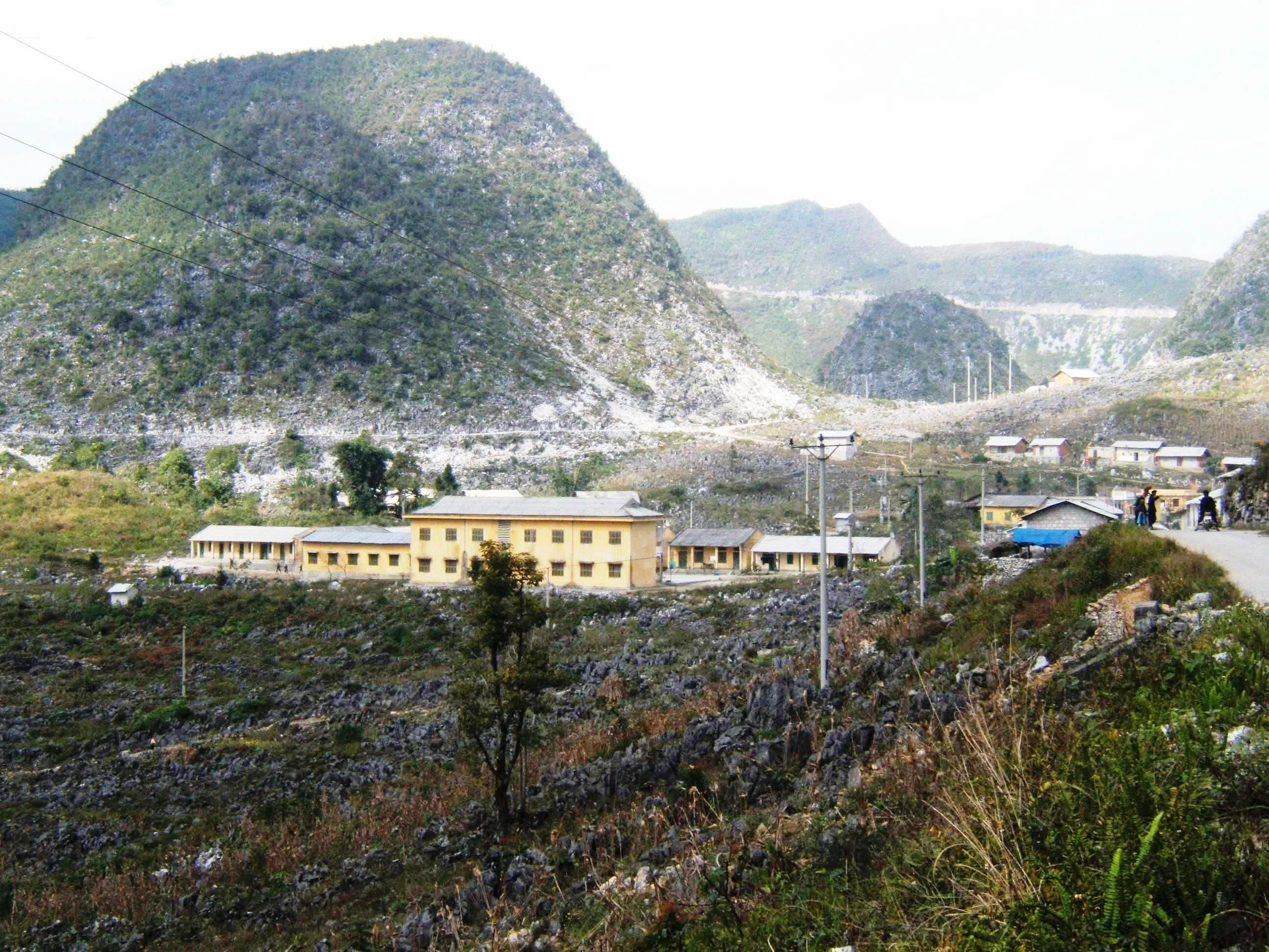 Sinh Lung commune, Dong Van district, Ha Giang province